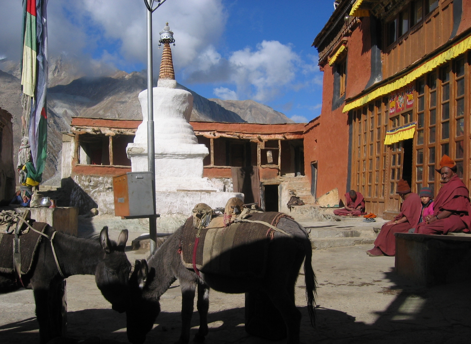 Inside the courtyard of Rangdum Gompa, 5km from Rangdum town, Suru Valley en route to Zanskar